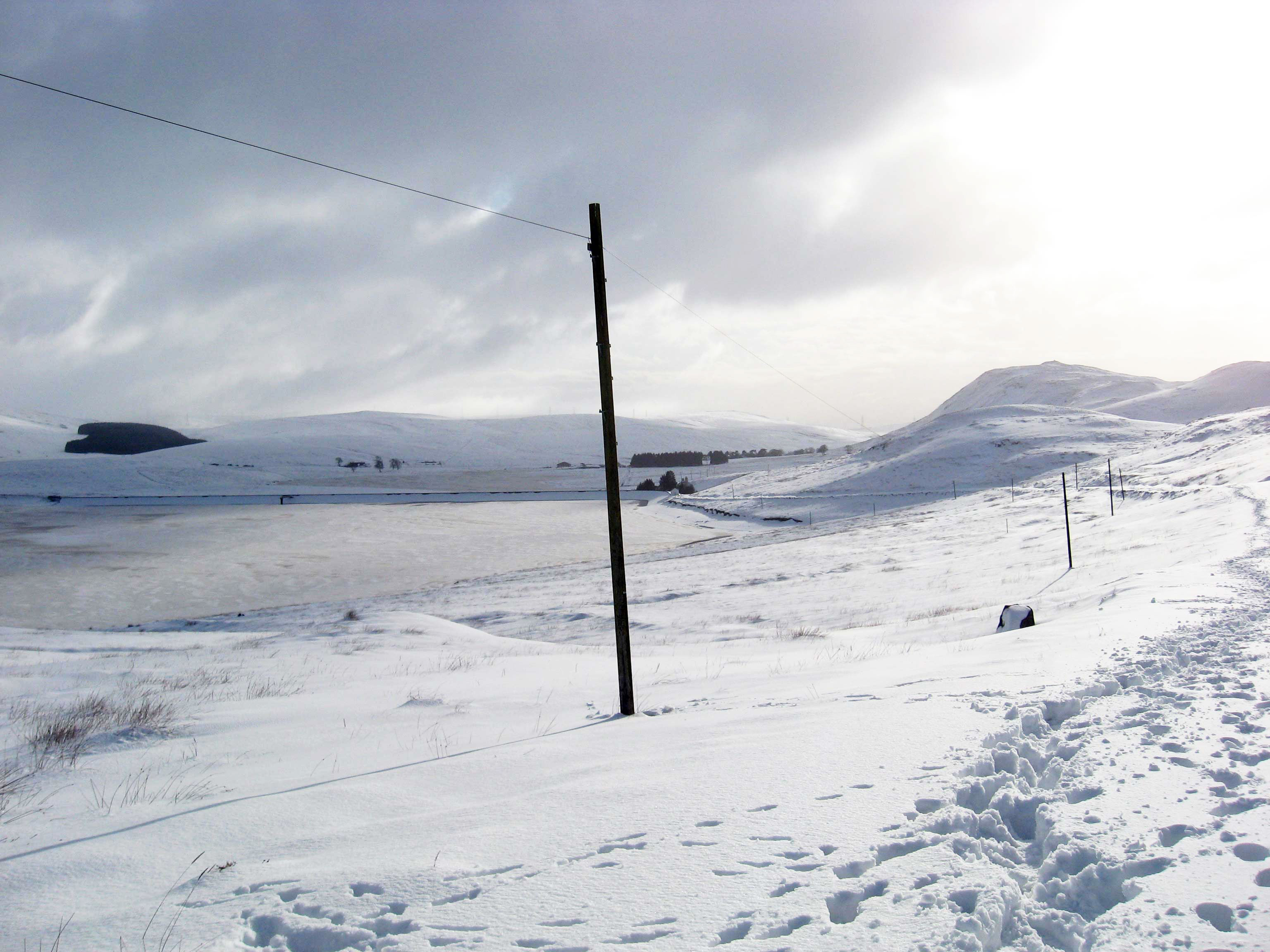 View over Loch Thom looking south.